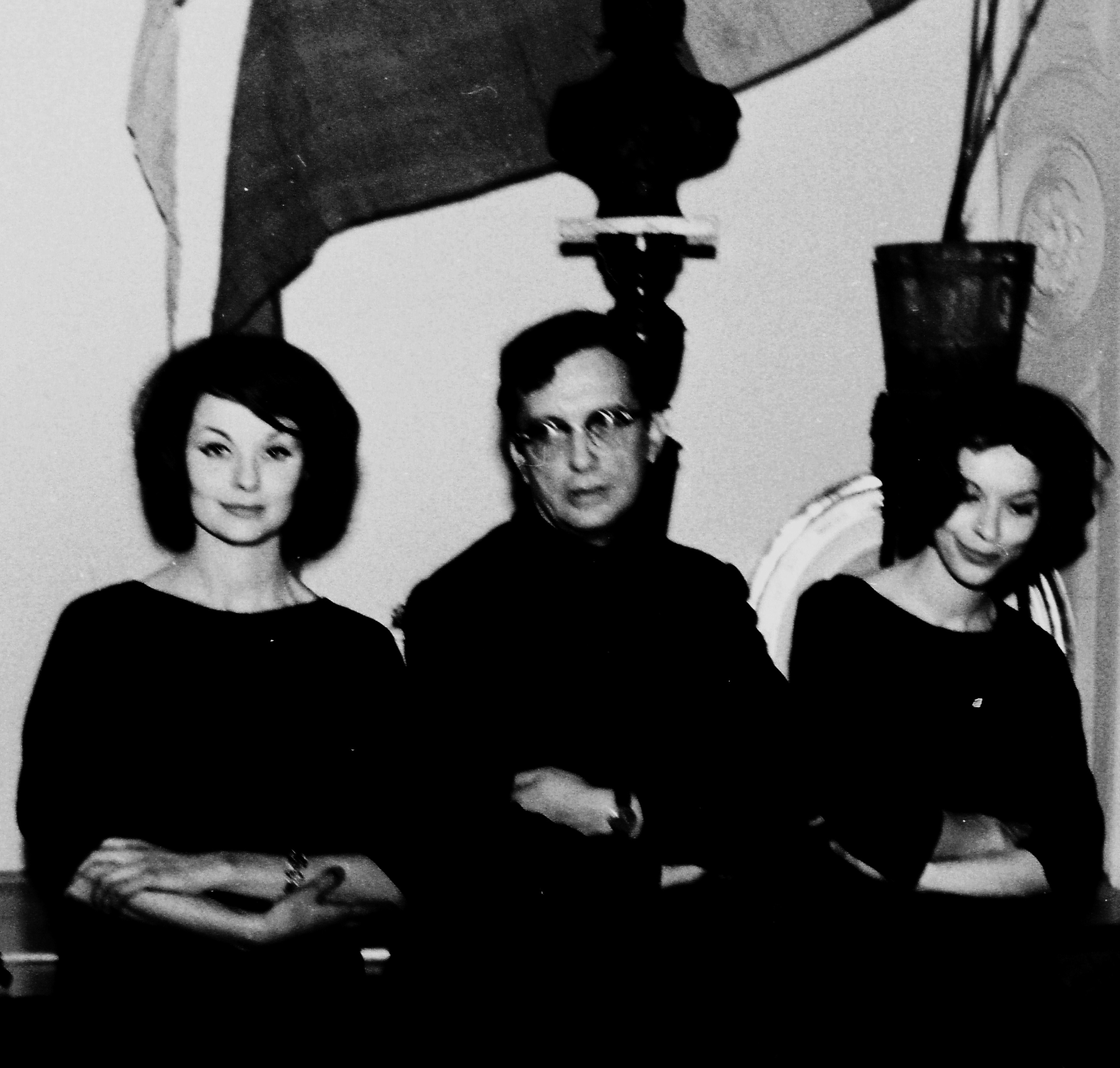 Oscar Reutersvärd ; 1915-2002; artist, art historian. Photo December 1, 1959